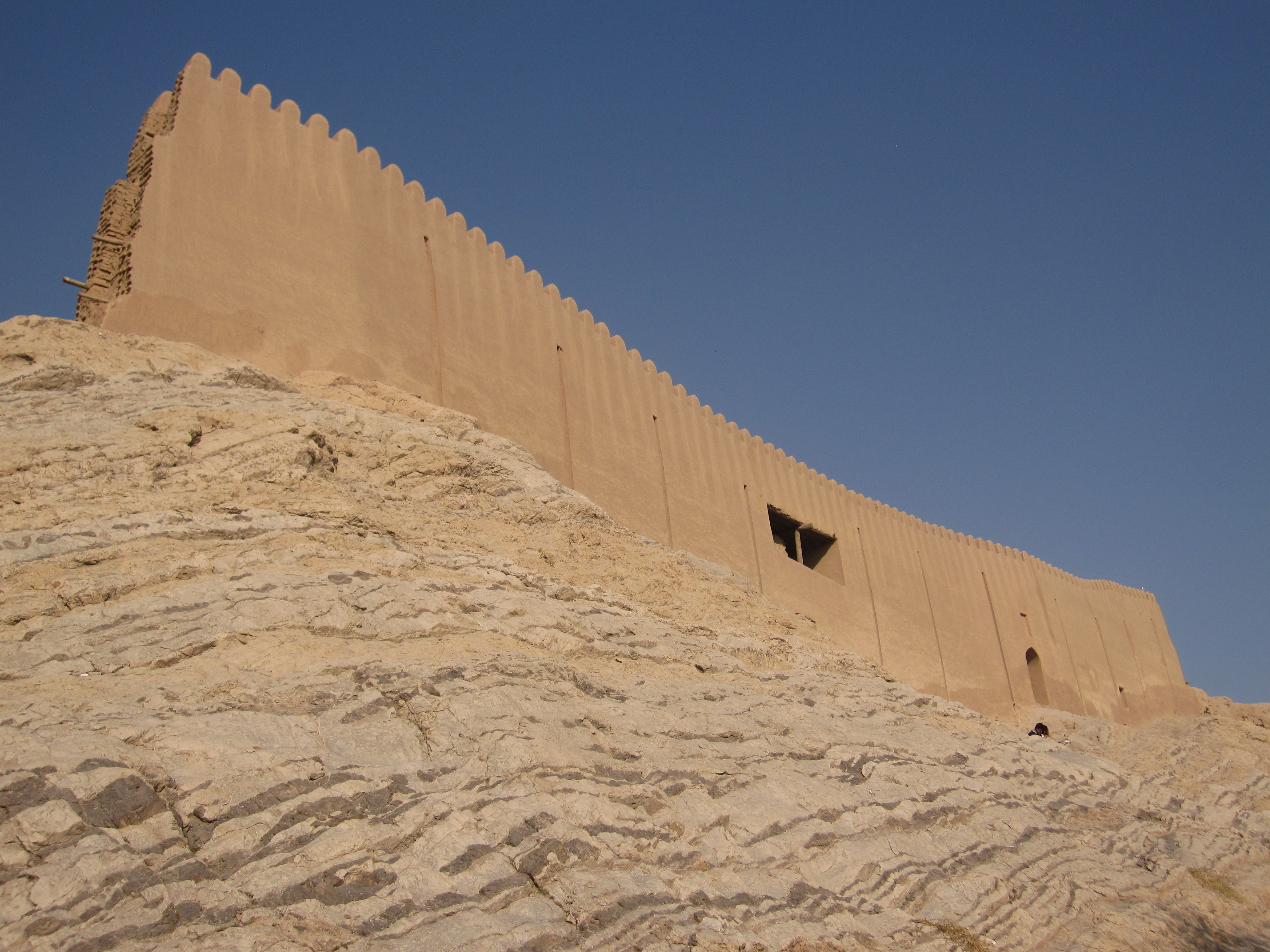 Iran - Rey - Cheshmeh Ali - Surena.